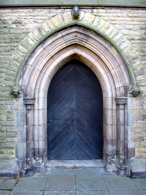 West doorway in the tower of the former Christ Church parish church, Crewe. The church was built in 1845 and the tower was added in 1877. Much of the church was demolished in 1977 due to dry rot.